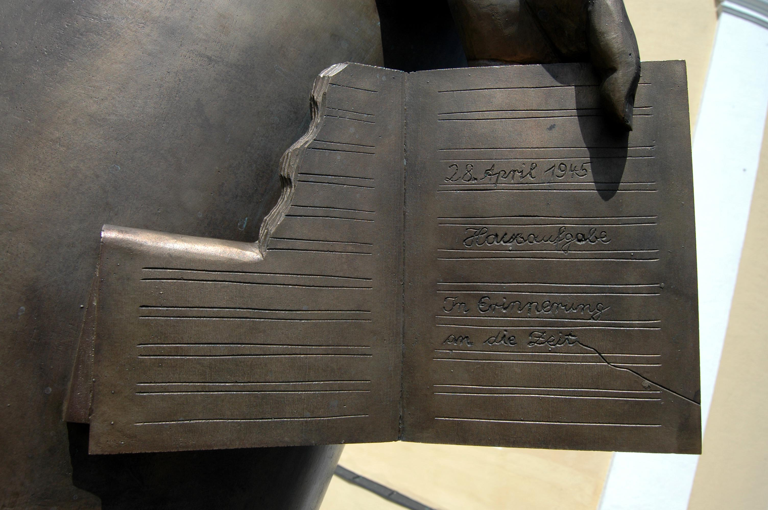 Grimm Hangl Memorial Bruckmuehl Detail "Hangl"